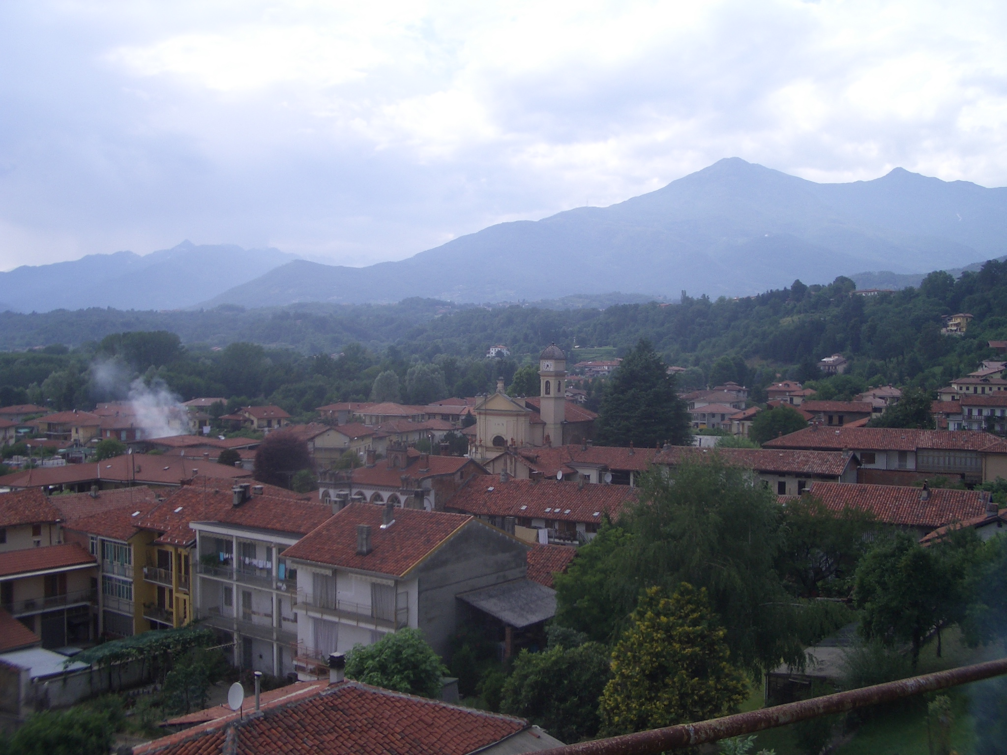 Castellamonte, Landscape with the church dedicated to San Rocco